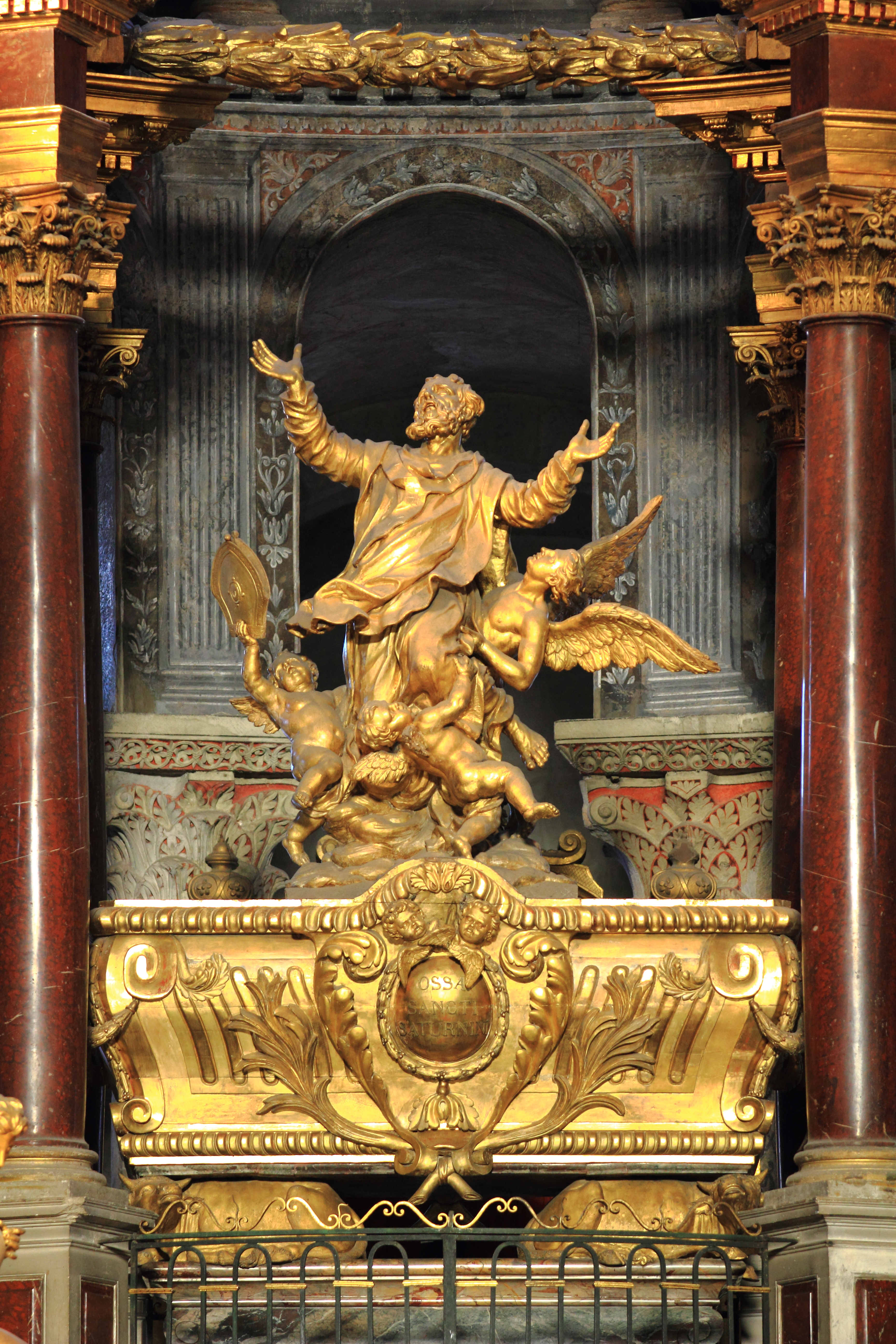 Basilique Saint-Sernin in Toulouse - Primary Altar